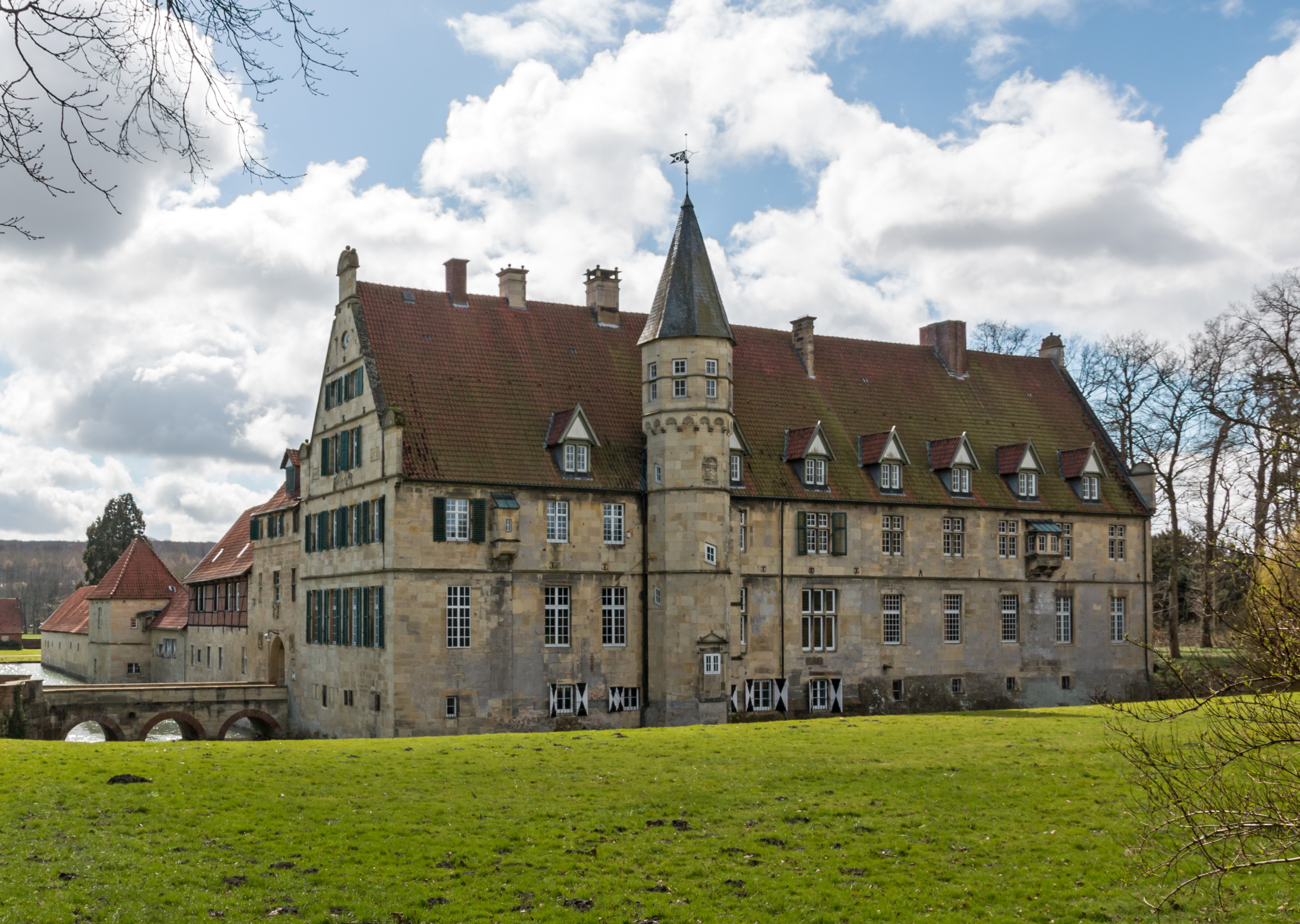 Havixbeck Manor, Havixbeck, North Rhine-Westphalia, Germany This image shows a heritage building in Germany, located in the North Rhine-Westphalian city Havixbeck (no. 58).